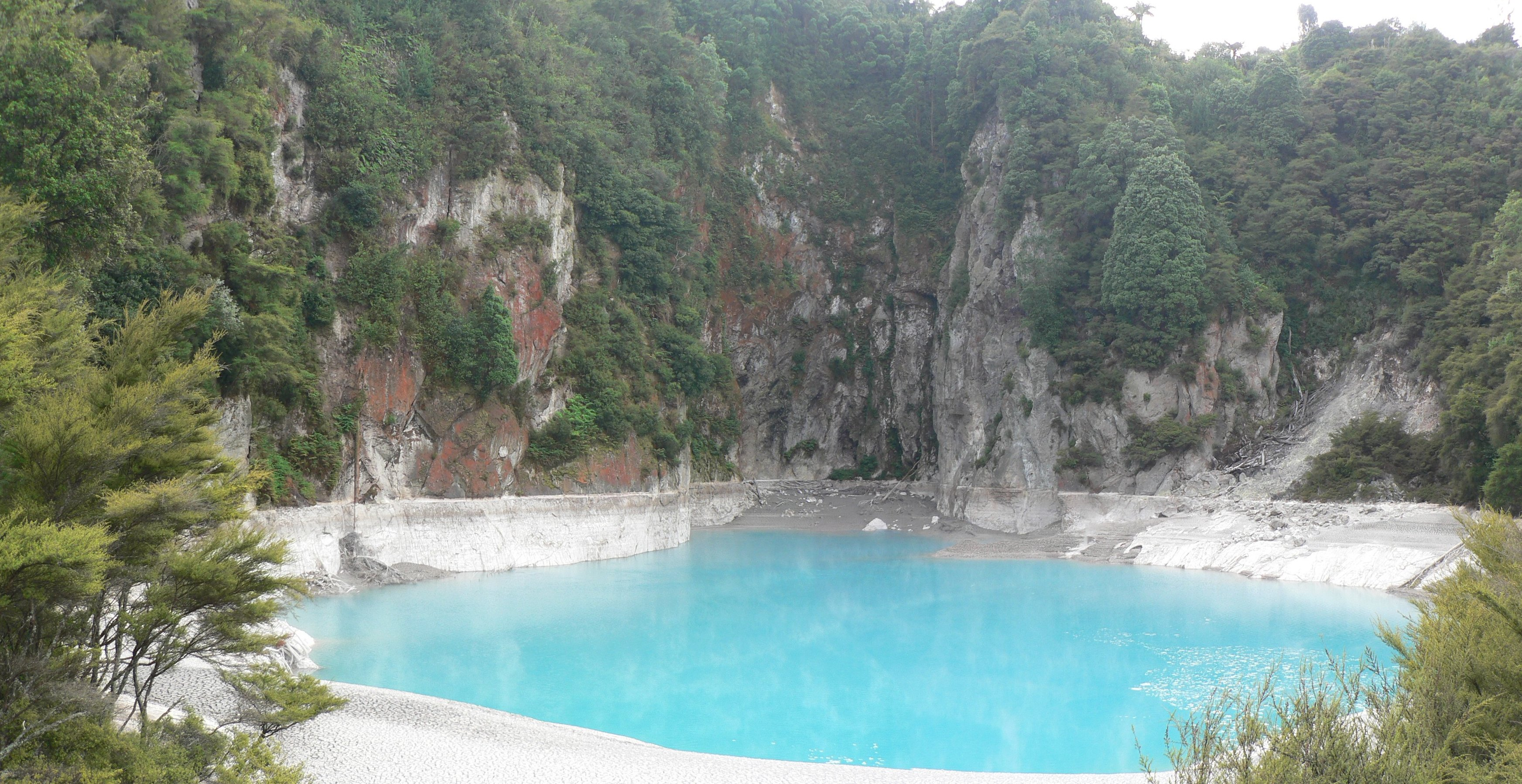 Inferno Crater Lake in the Waimangu Volcanic Valley, Rotorua, New Zealand.